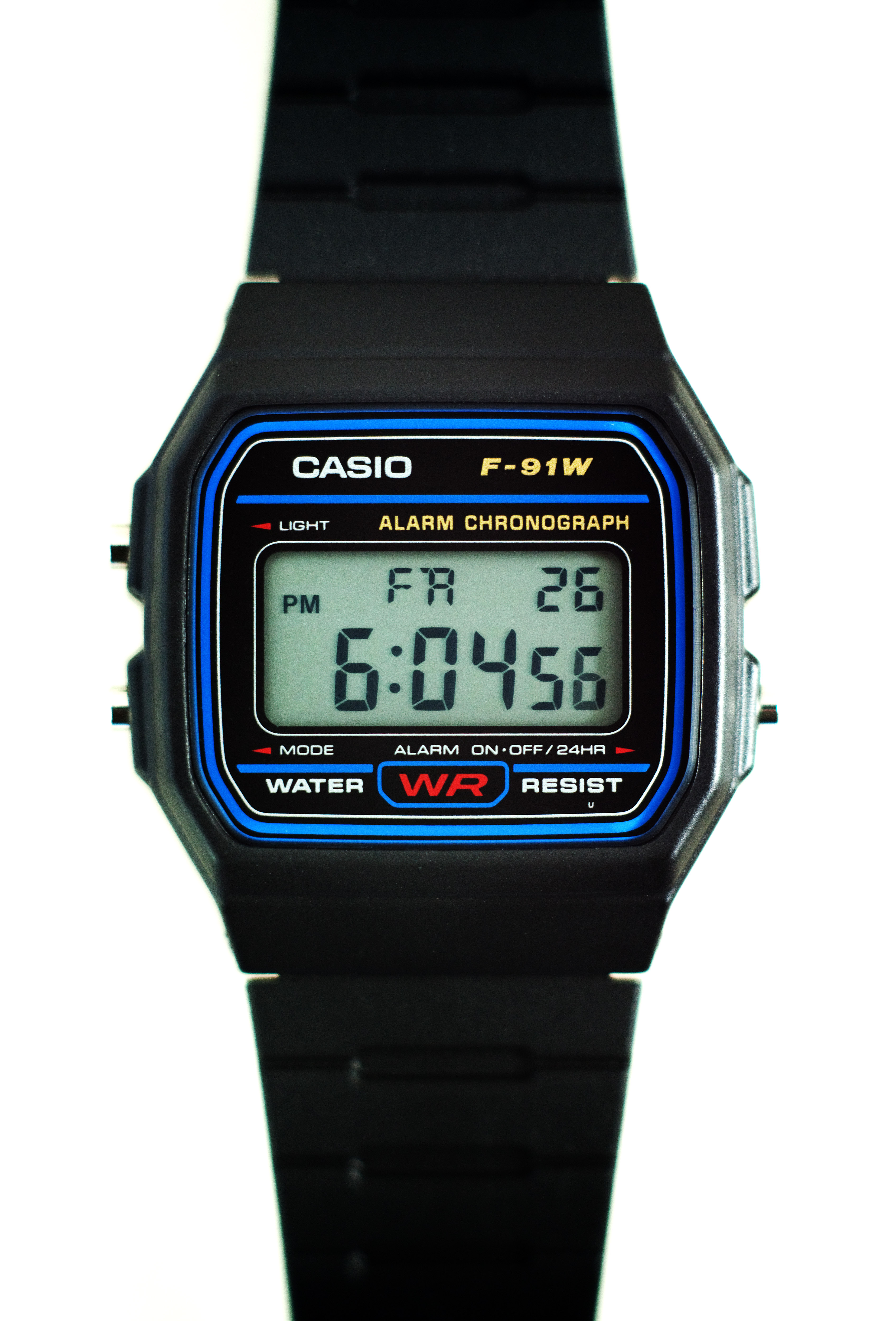 A Casio F-91W (2013)